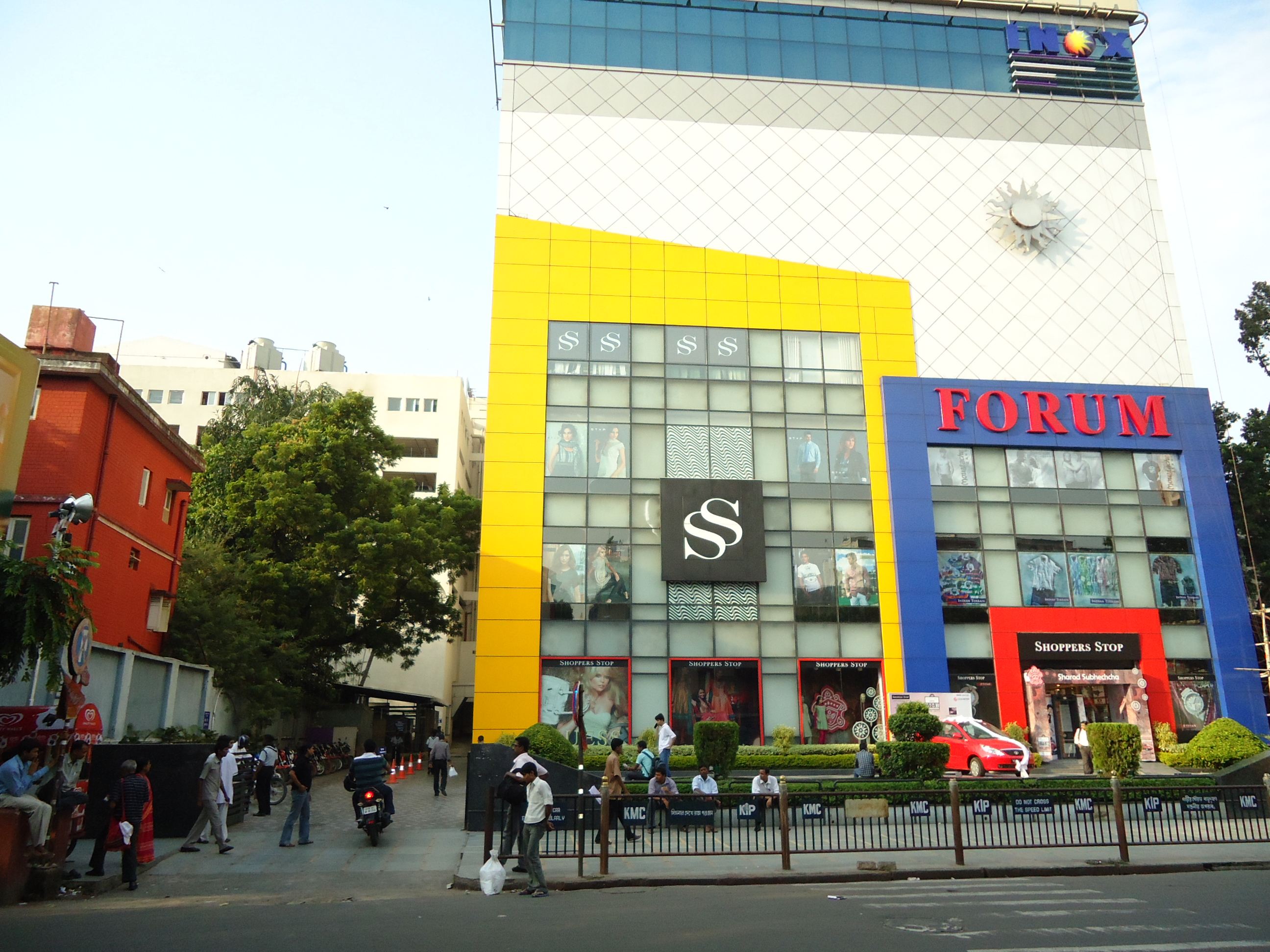 View from Elgin Road